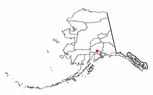 Adapted from Wikipedia's AK borough maps by Seth Ilys.